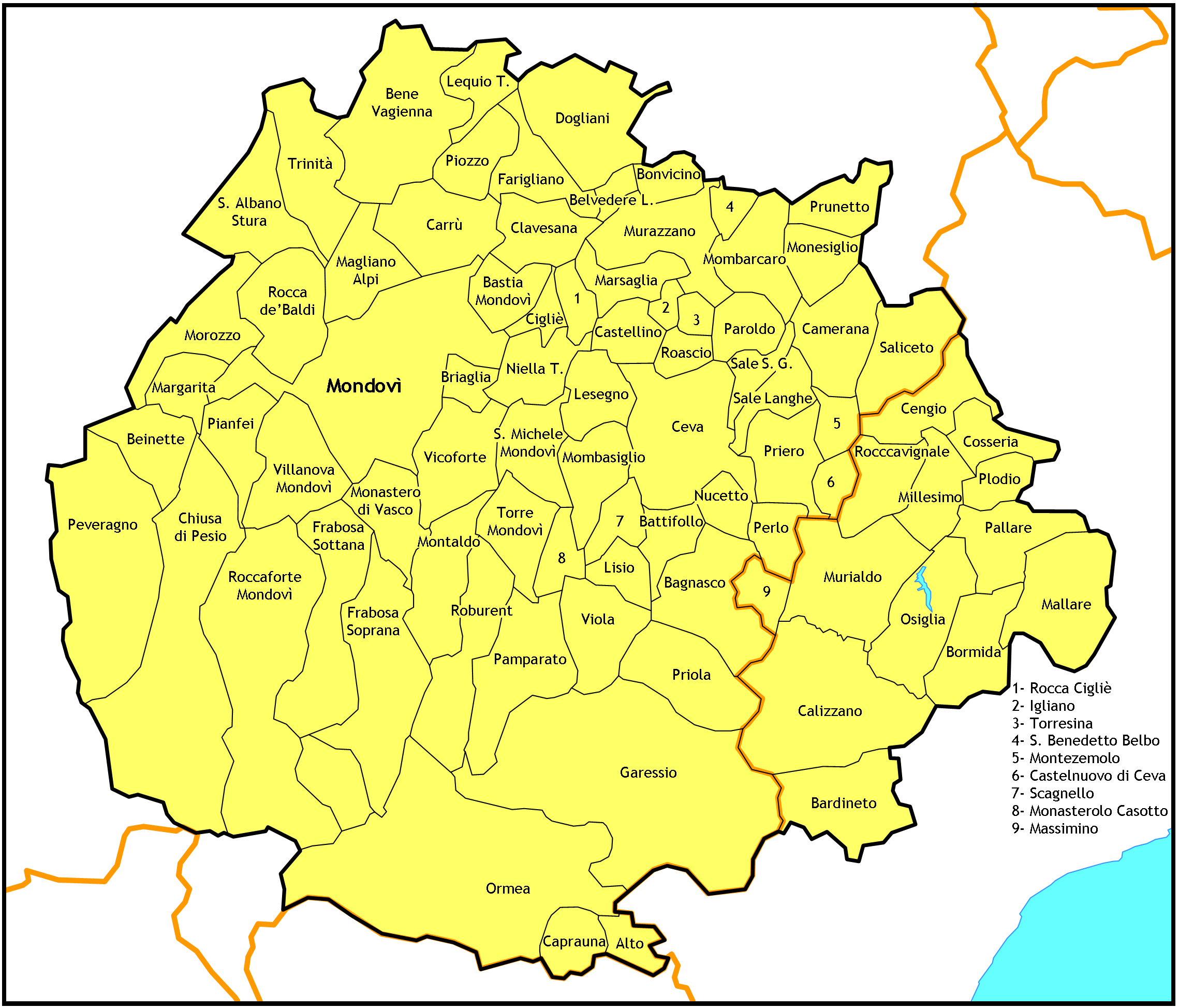 Map of Mondovì's Diocese